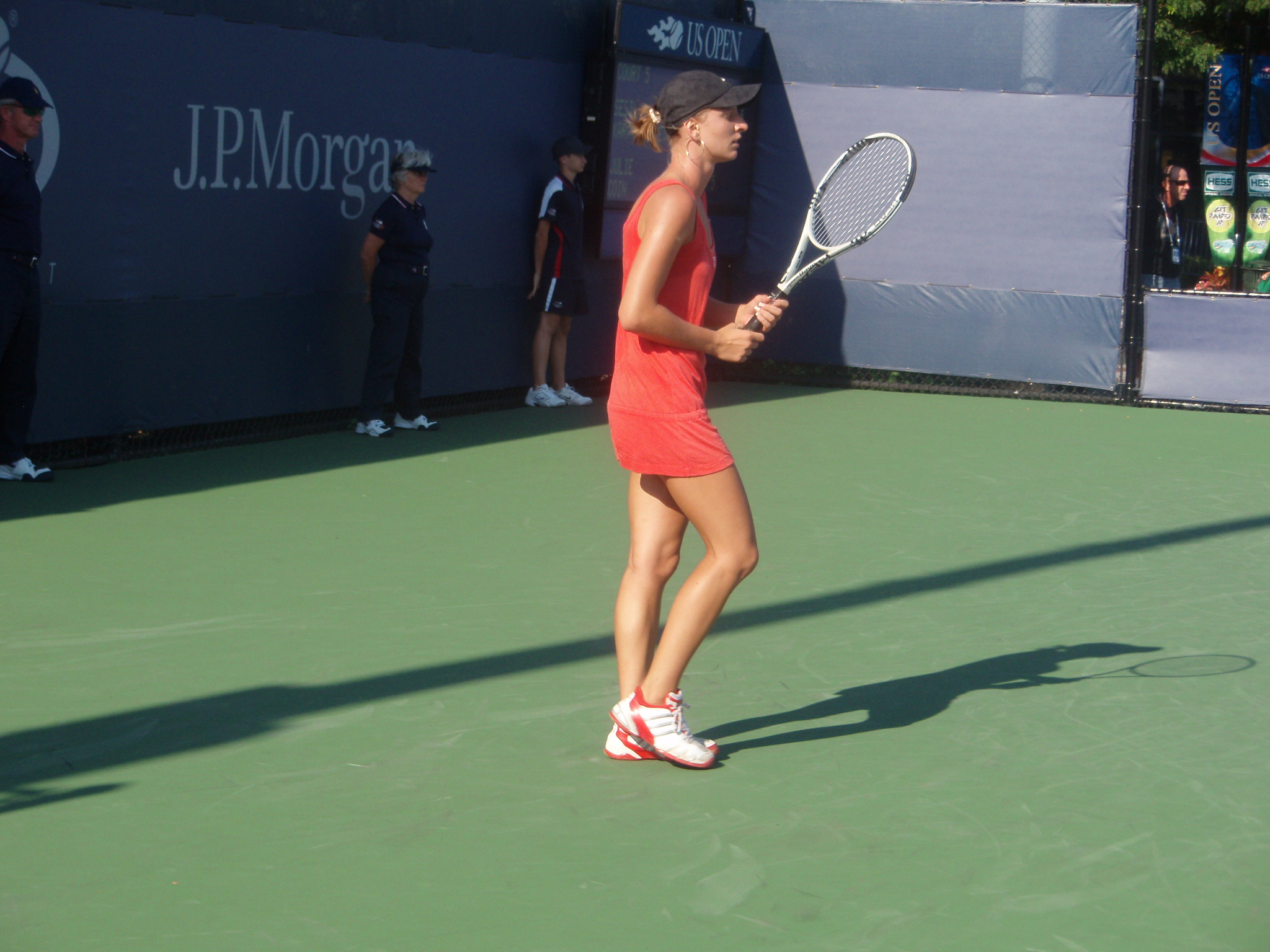 Sesil Karatancheva At The 2008 US Open Qualifying